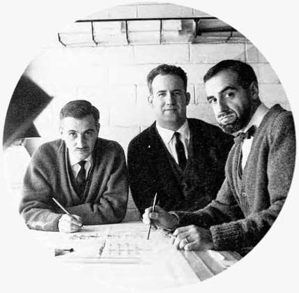 Catalan architects Giráldez, López Iñigo & Subías, at their studio, decade 1960'. From left: Pedro López Iñigo, Xavier Subias, Guillermo Giráldez